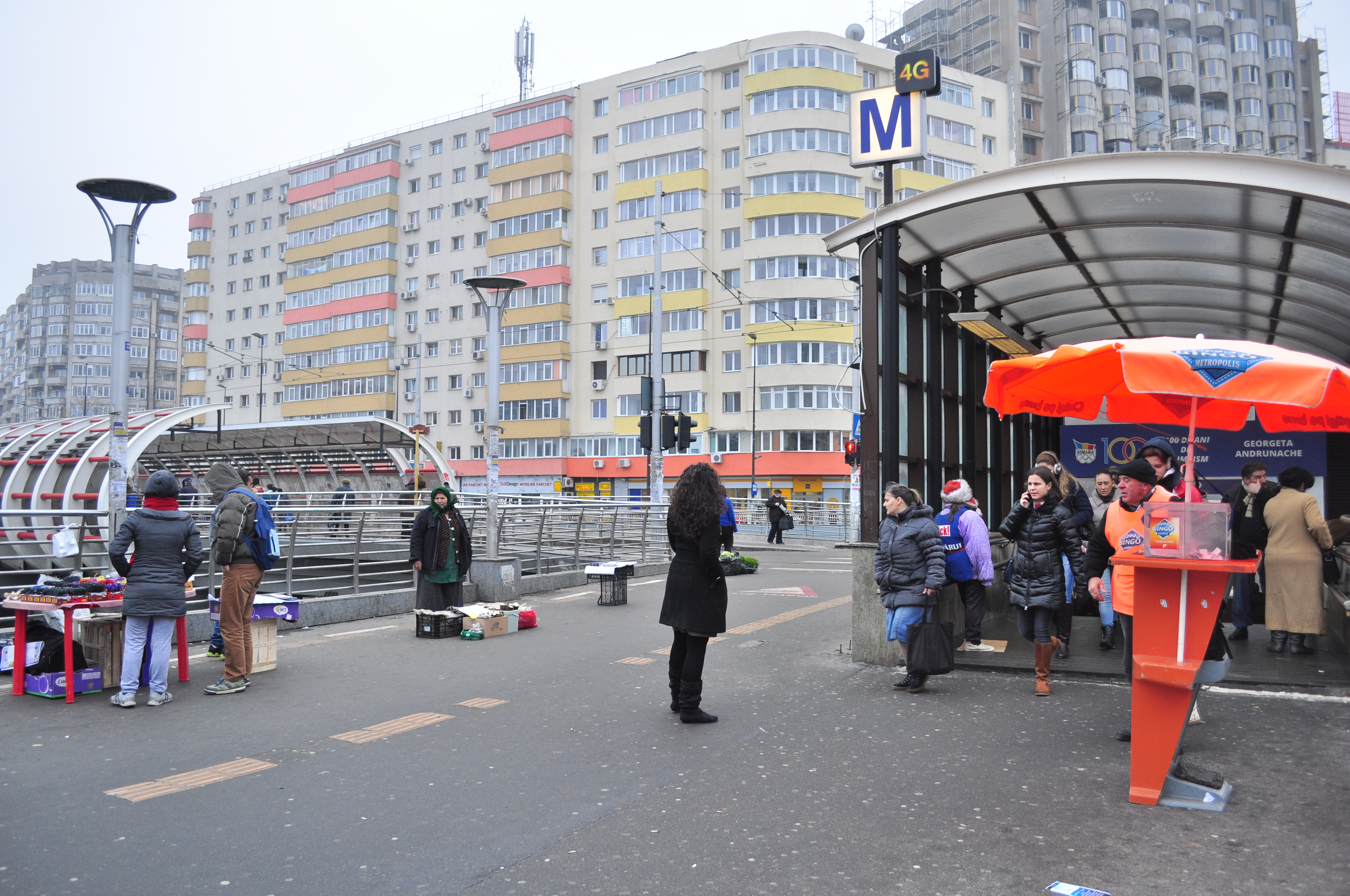 Entrance to Metro station, Obor, Bucharest Sector 2, Romania.